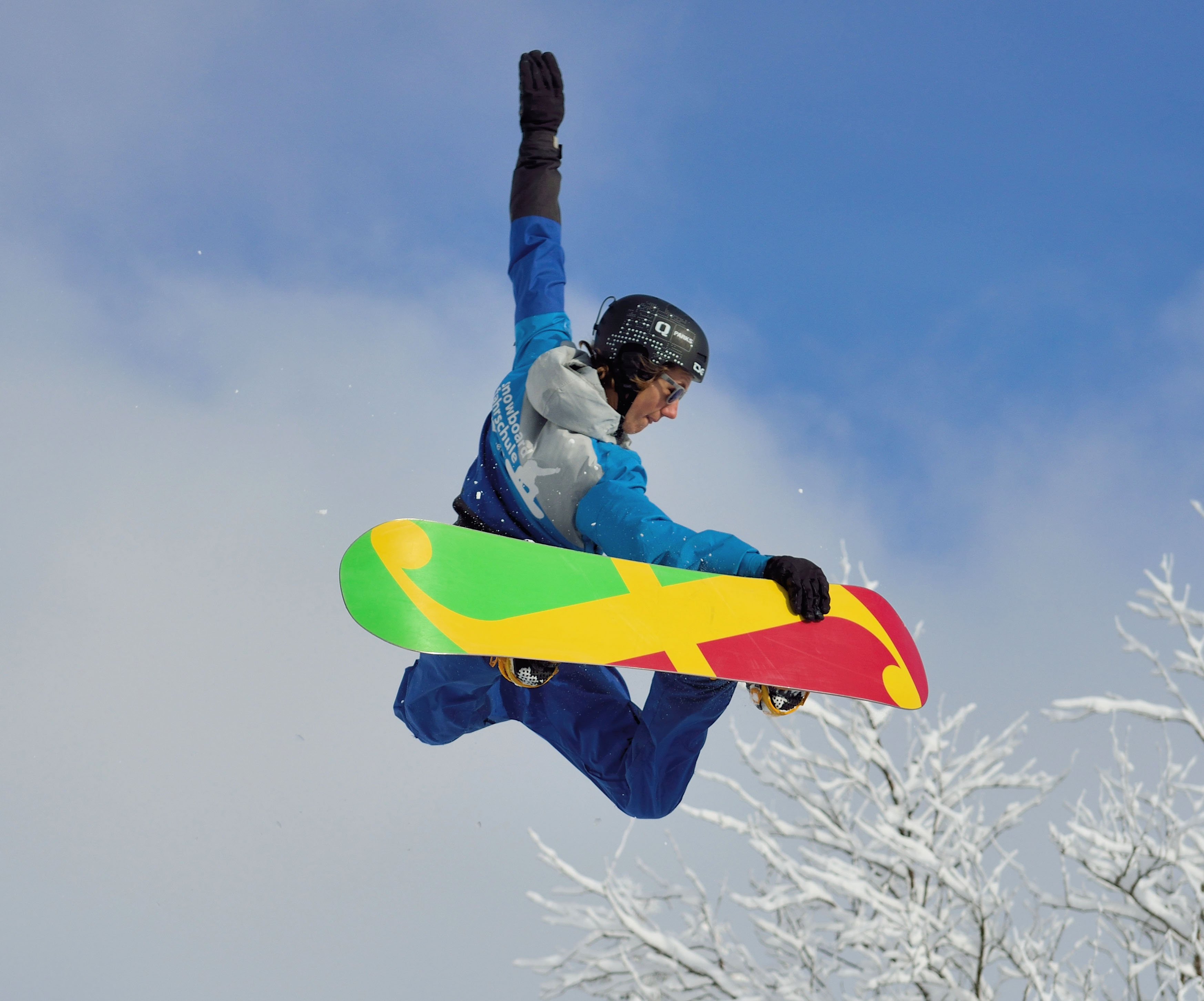 Jumping snowboarder at Feldberg, Germany